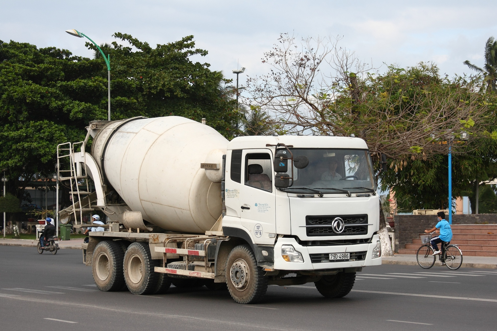 Dongfeng cement mixer truck in Nha Trang, Vietnam